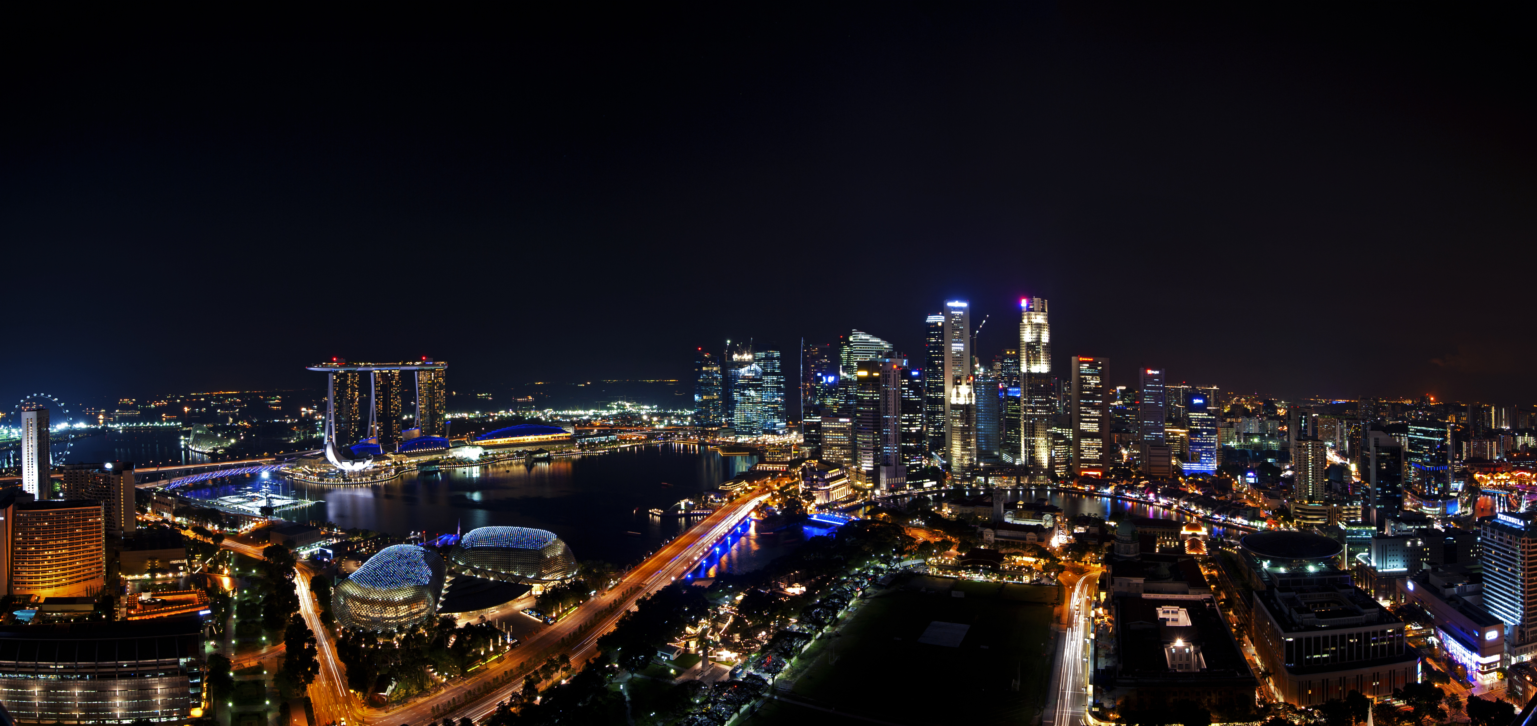 boat quay Singapore skyline cbd marina bay sands clarke quay esplanade floating platform city hall supreme court 2011